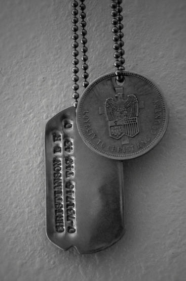 WWII dog tags, with religious attachment reading "Loyalty to Christ and Country" From Flickr description: I thought this would be an appropriate Independence Weekend photo to post. These are my late grandfather's dog tags from World War II. If viewed large, you can see where he scratched in the words "and Lucille" after "Loyalty to Christ and Country" on the round medallion. Lucille is my grandma who provided me with these dogs tags to photograph.